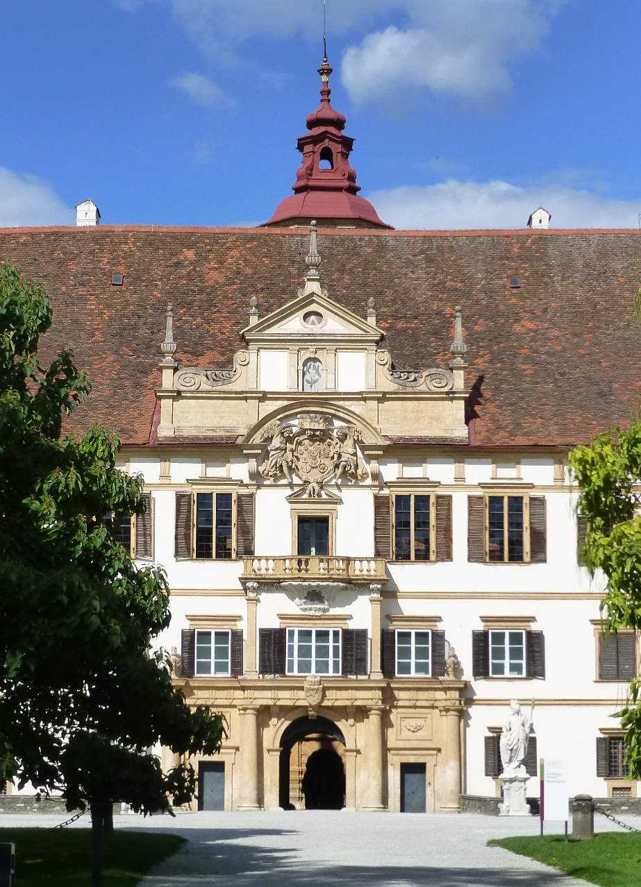 Portal of Castle Eggenberg, Graz, with the coats of arms of the Eggenberg.